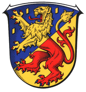 Coat of Arms of Hohenstein